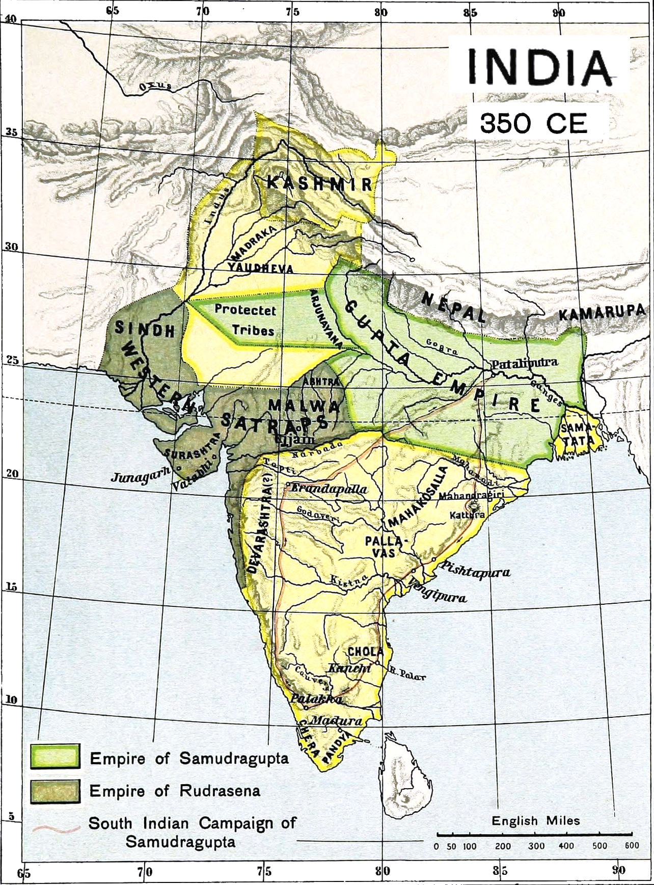 India 350 AD